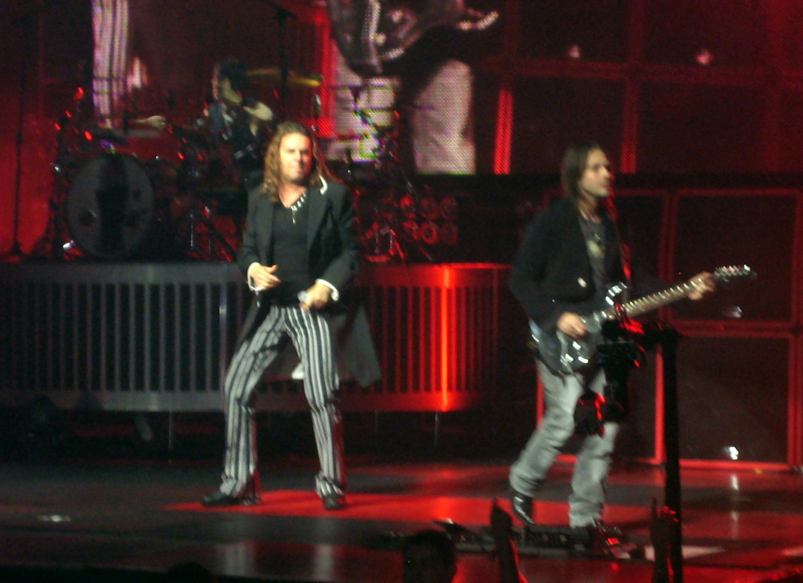 Maná performing at the Gibson Amphitheatre in Universal City, California, United Statesmana